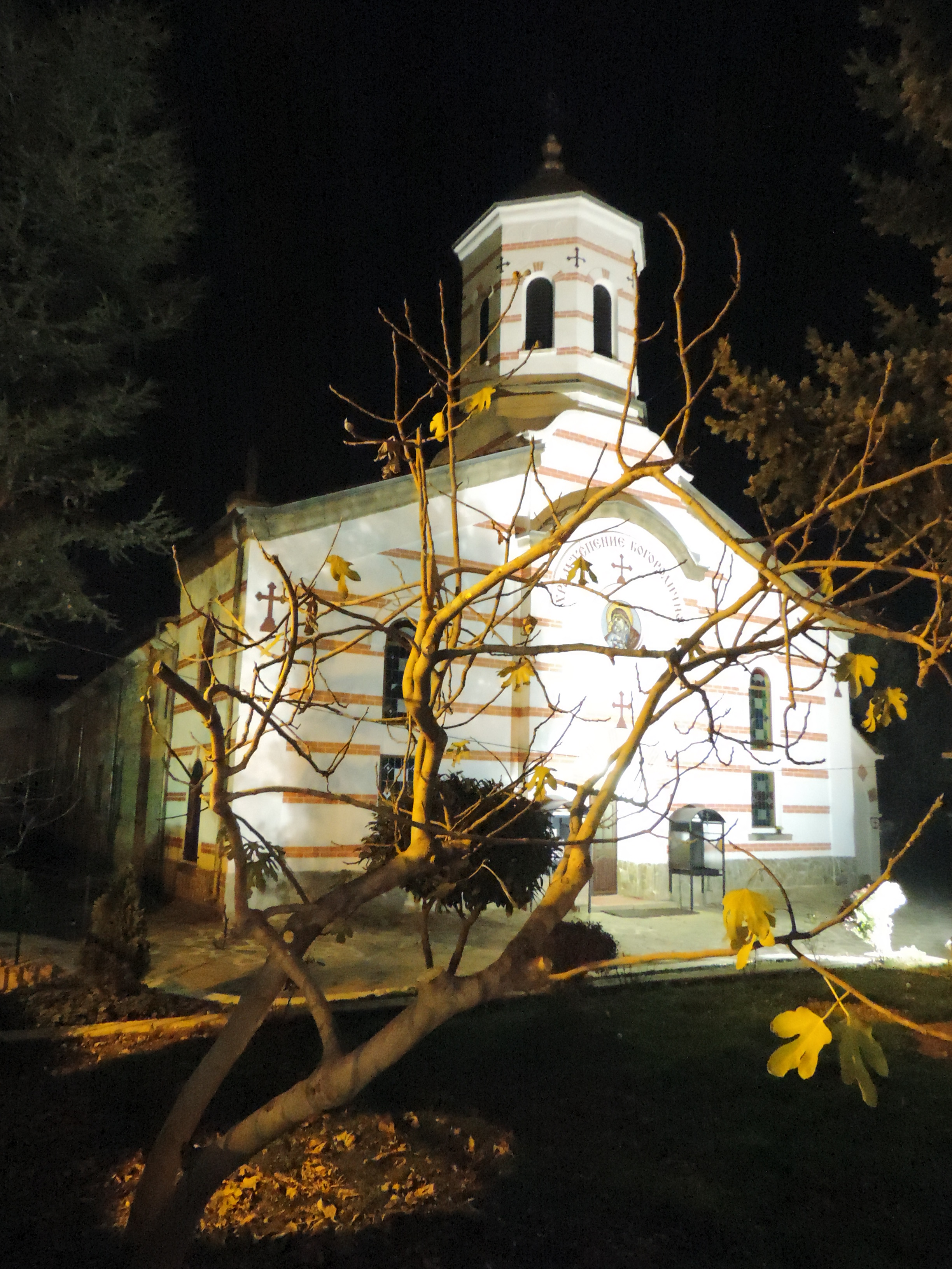 Night photo of the "Dormition of Theotokos" church in Kazanlak, Bulgaria